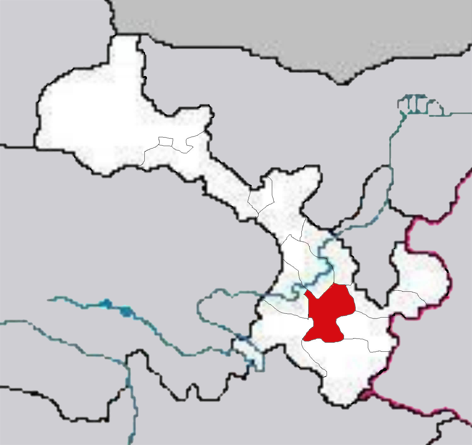 Maps of Gansu Province of China.